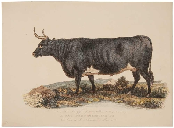 "A Fat Pembrokeshire Ox", aquatint from A Description of the Different Varieties of Oxen Common in the British Isles (1800) by George Garrard.